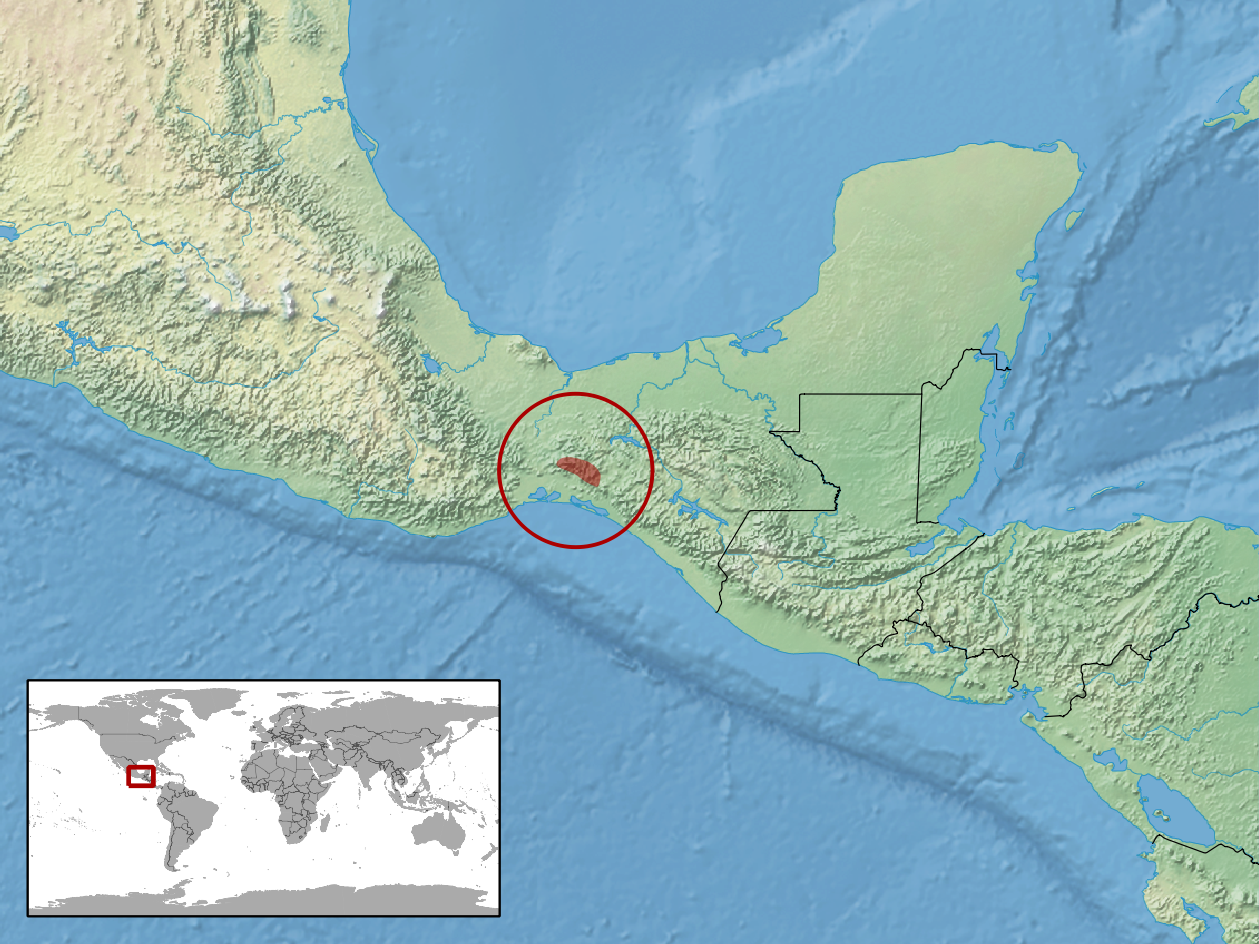 geographic distribution of Adelphicos latifasciatum (Native: Mexico)